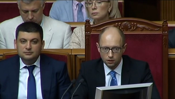 Acting Prime-Minister of Ukraine Volodymyr Groysman and Arseniy Yatsenyuk during the vote of confidence in the Verkhovna Rada on July 31, 2014.